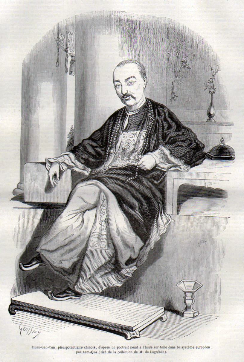 Huang Entong, politician of the Qing Dynasty. He participated in the negotiation on the Treaty of Nanjing during the First Opium War. In the French Journal his name is written as "Huan-Gan-Tun".